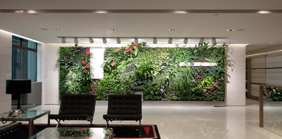 Ronald Lu & Partners Green Wall, Hong Kong 2010